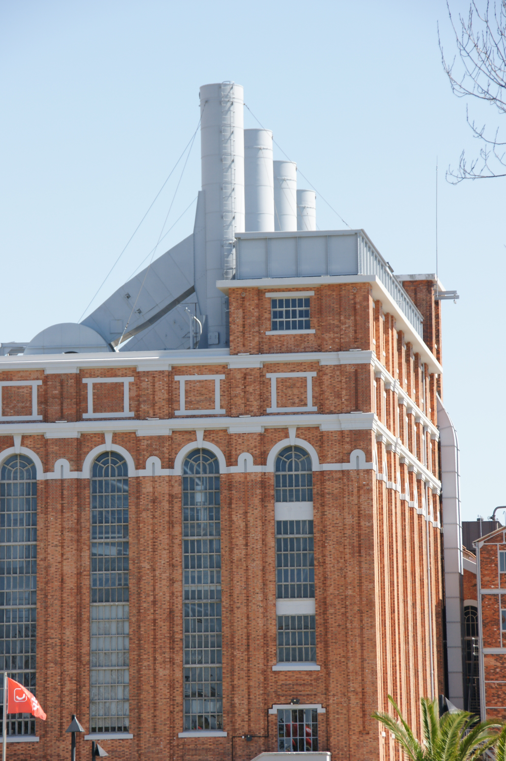 This file was uploaded for Wiki Loves Monuments in Portugal with the unique identifier 73123.